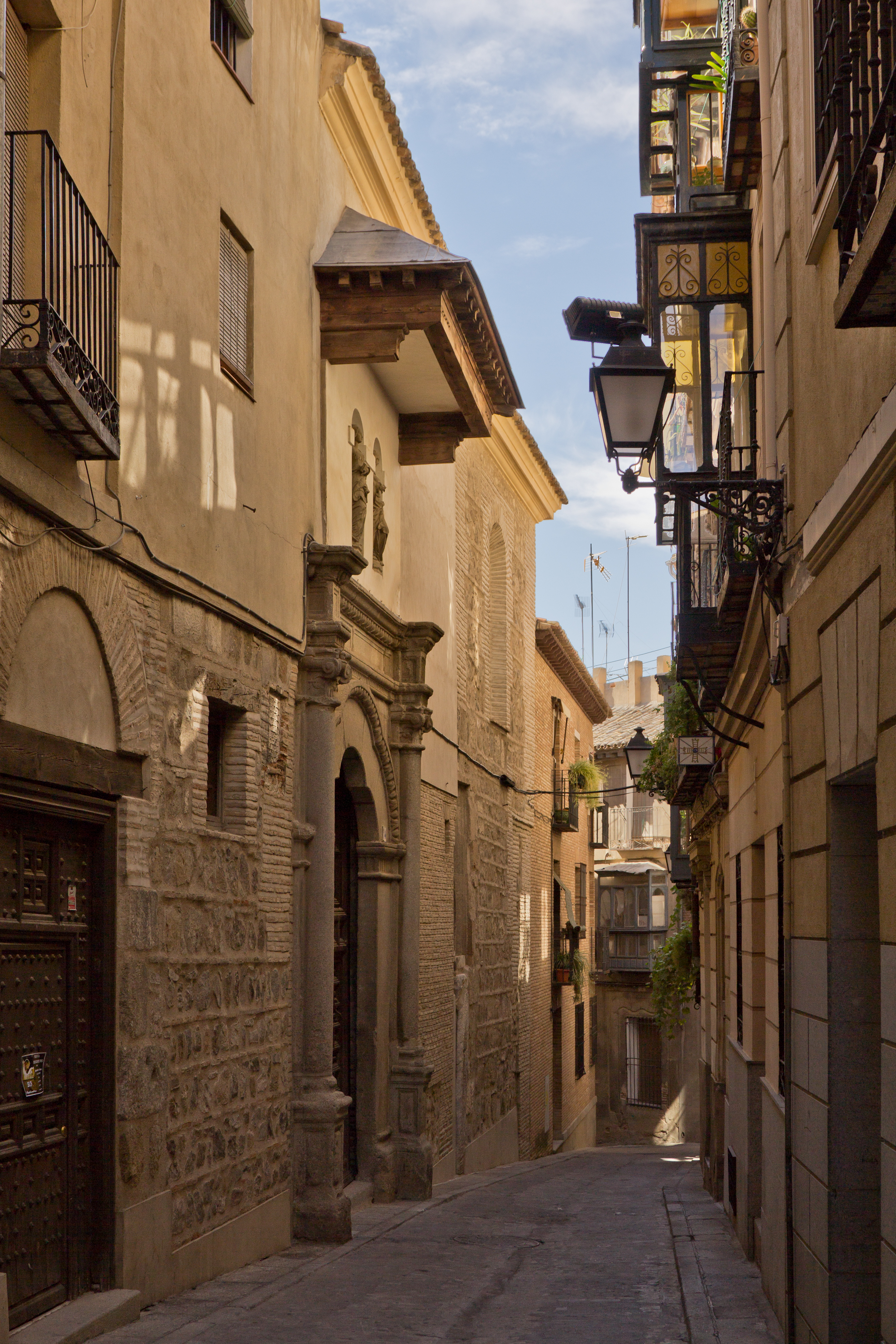 Church of Saint Justa and Saint Rufina, Toledo, Spain.